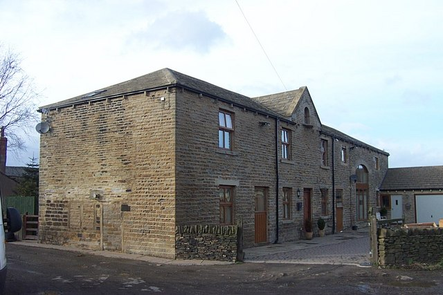 Houses in Thorncliffe A row of terrace houses converted form an old farm. Notice the arched window on the right of the building, probably the entrance to the old barn.